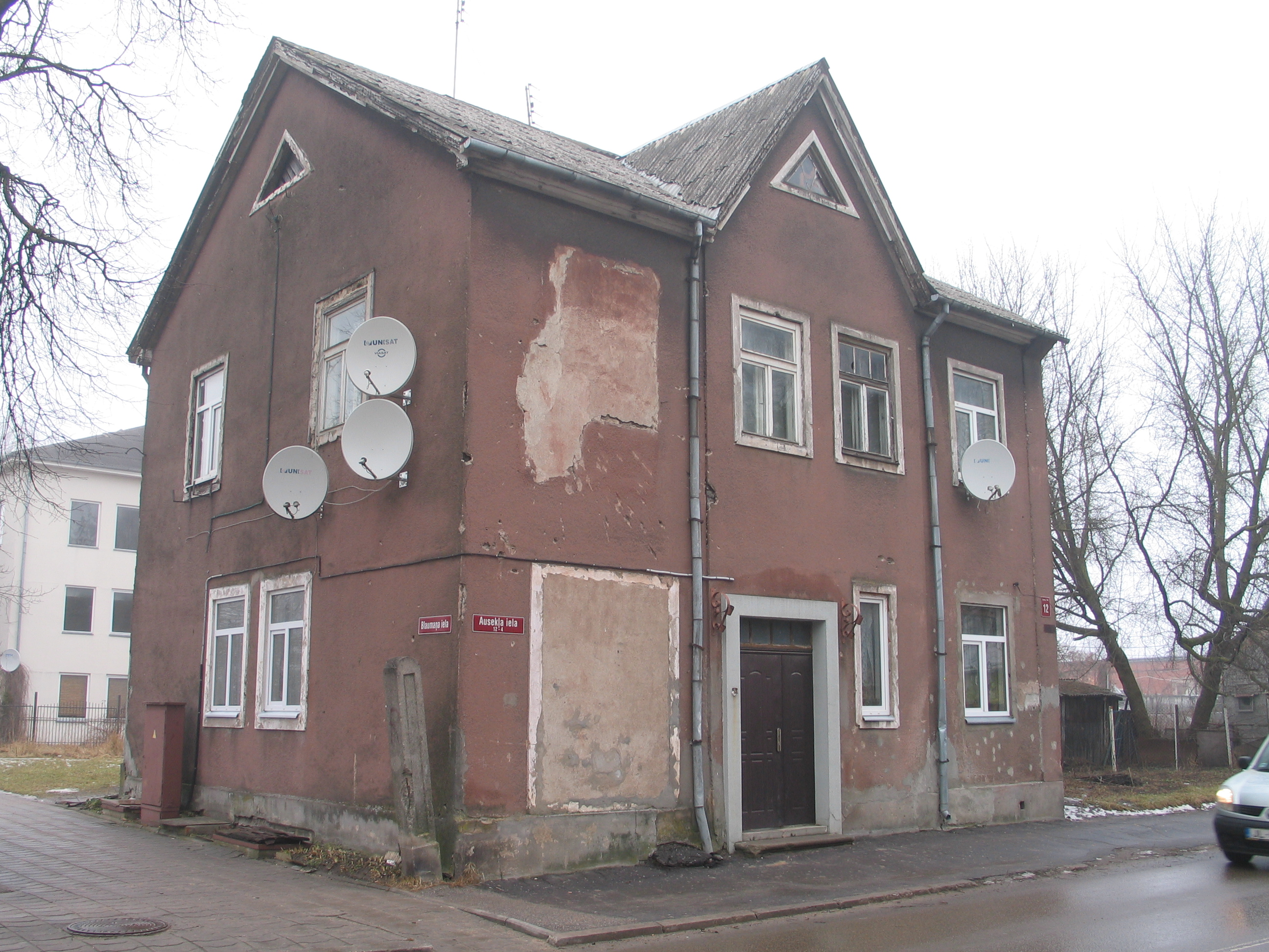 Corner of Ausekļa iela and Blaumaņa iela, Jelgava